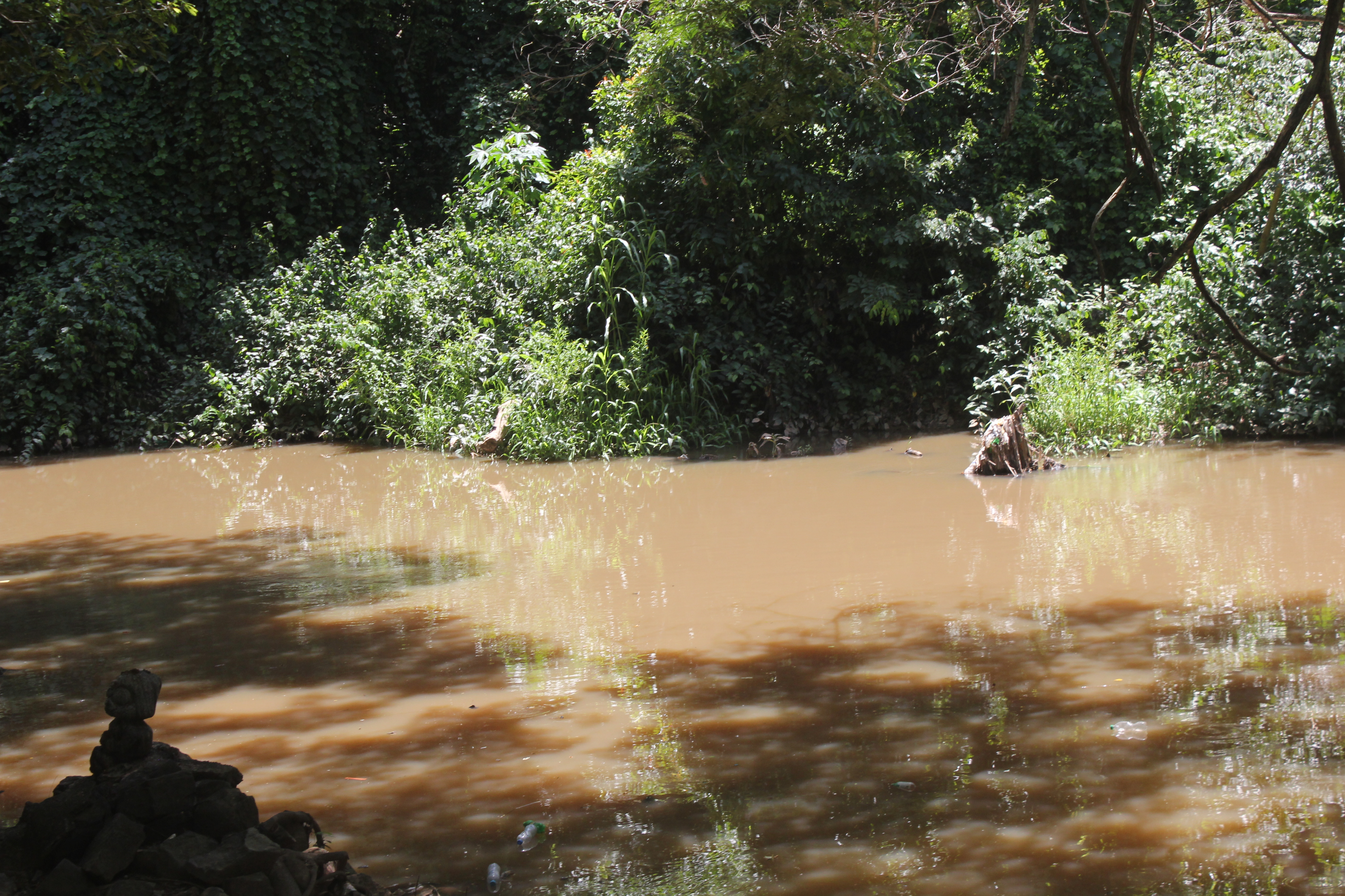 Oshun was a woman who truly belives in her own words and one of Sango (The god of thunder) wives, due to a traumatic occurrence she turned into a flowing river and after time immemorial people of that land have been worshipping this goddess. For the people in need she mercifully hear them. This Indigenous Osun River Located in the South west part of Nigeria in Osogbo. It is a sacred and reserved area where dirt and other unlawful activities are not meant to take place. Inside the river they worship the ancestral Osun osogbo goddess and prominent people all over the world come to witness the feasts or celebration of the sacred River. Osun River is a now renowned Tourist Attraction center where people home and abroad comes to visit the traditional and cultural heritage of the Yoruba Kingdoms.